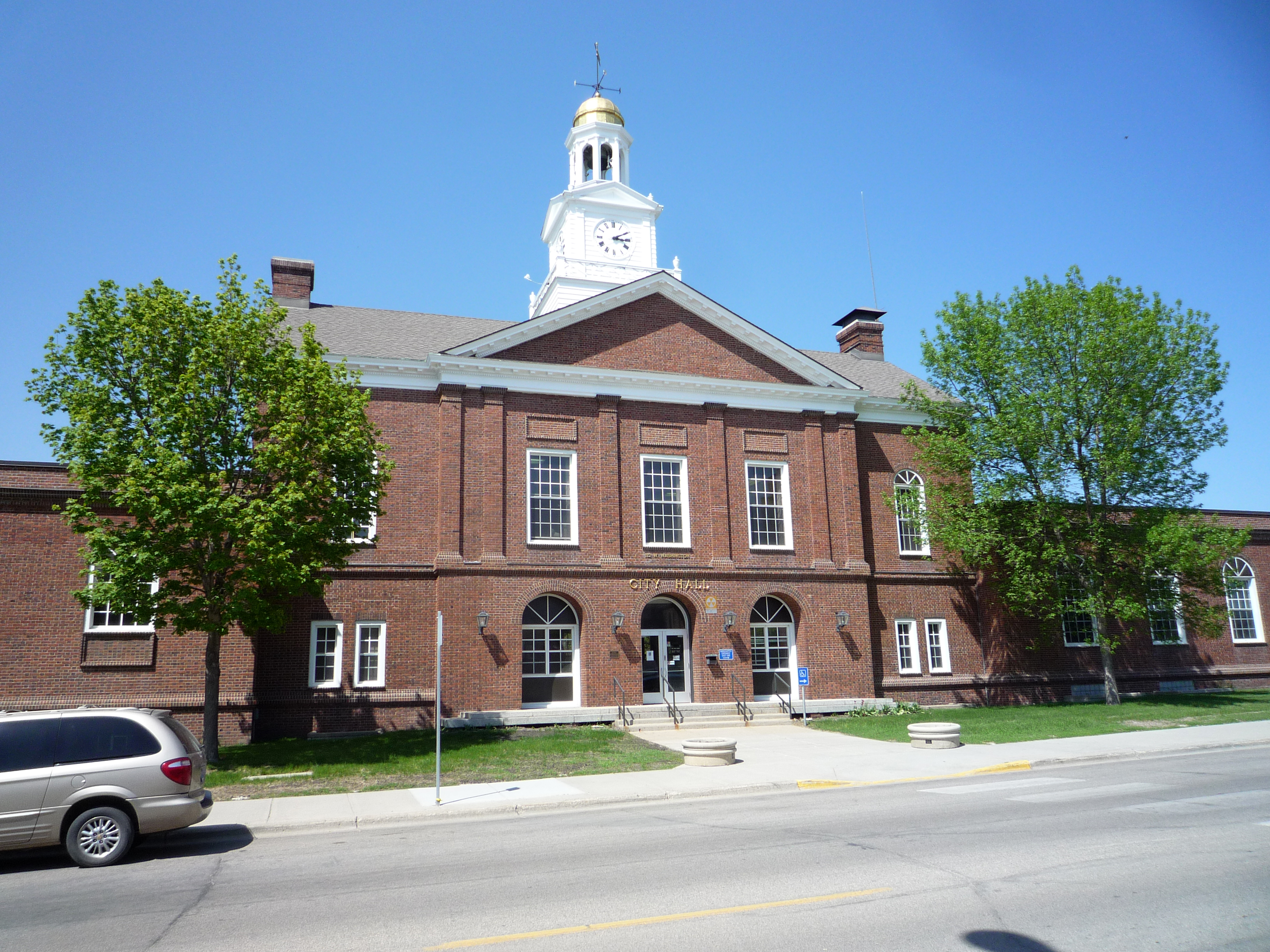 City Hall, Fergus Falls, Minnesota, USA. It was modeled off of Independence Hall in Philadelphia.